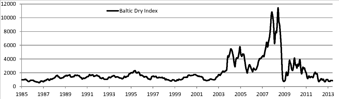 Baltic Dry Index 1985–2013